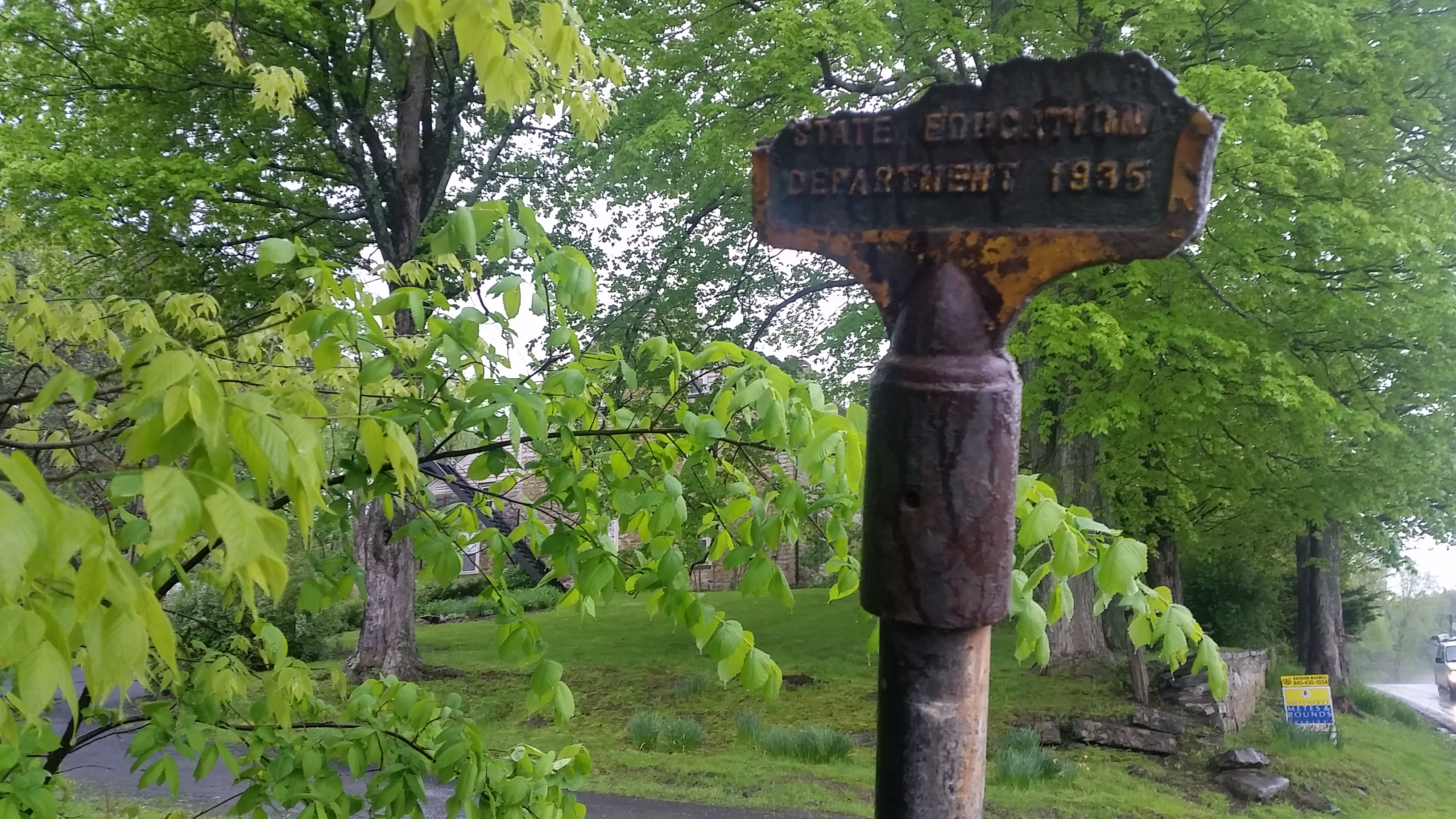 Broken NY State historical marker for the Oliver House in Marbletown, NY